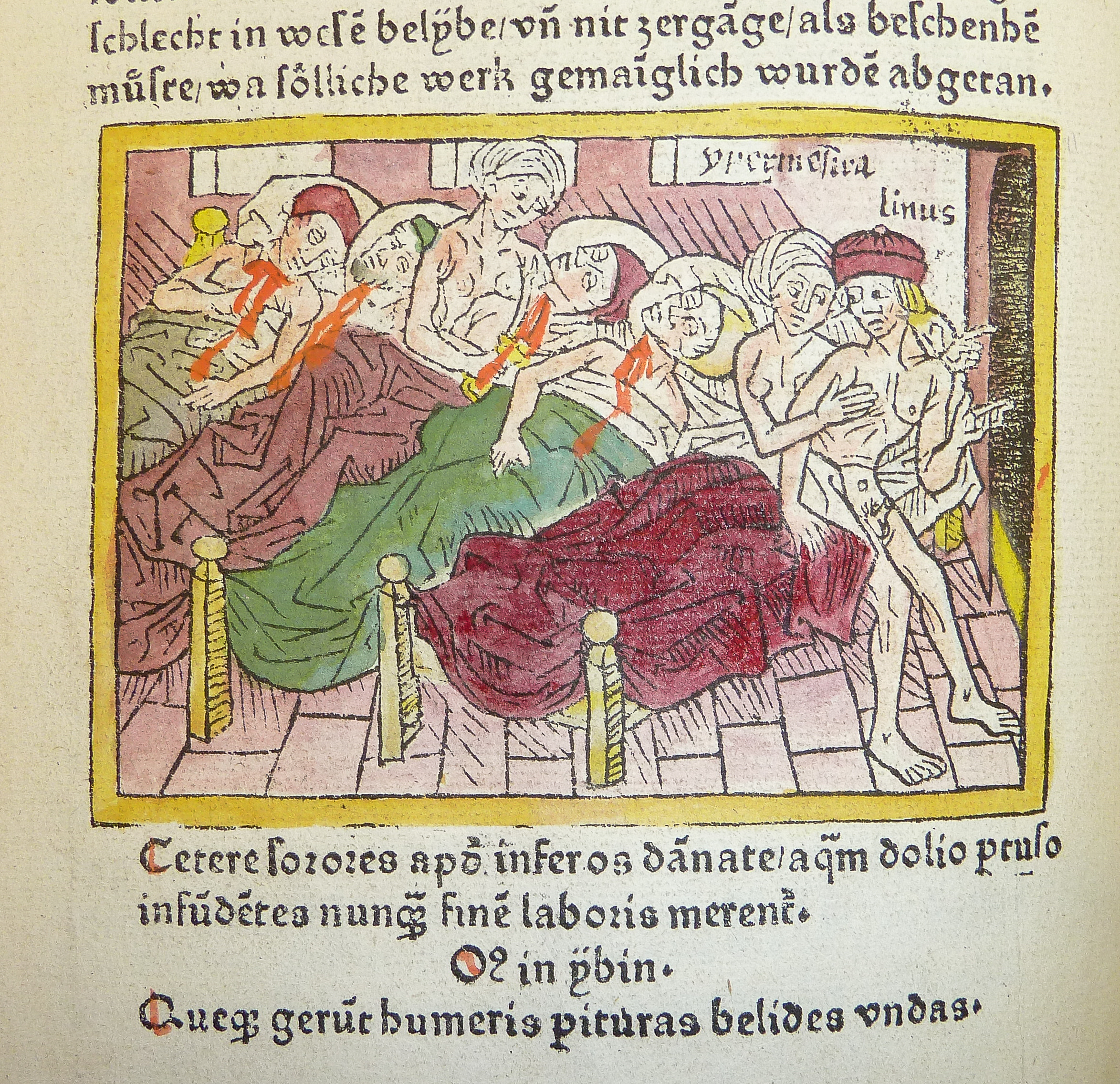 Woodcut illustration (leaf [c]7v, f. [xvii]) of Hypermnestra, Lynceus (or Linus) and the Danaïdes, hand-colored in red, green, yellow and black, from an incunable German translation by Heinrich Steinhöwel of Giovanni Boccaccio's De mulieribus claris, printed by Johannes Zainer at Ulm ca. 1474 (cf. ISTC ib00720000). One of 76 woodcut illustrations (1 on leaf [e]8v dated 1473), each 80 x 110 mm., depicting scenes from the life of the women chronicled (for a full list of subjects, cf. W.L. Schreiber, Handbuch der Holz- und Metallschnitte des XV. Jahrhunderts (Nendeln: Kraus Reprints, 1969), no. 3506). "Pour la première moitie le nom se trouve inscrit à côte de la tête de chaque femme, pour le reste il es ajouté entre les deux réglettes. Il n'y en a que trois, qui n'ont qu'un seul trait carré."--Schreiber. Established form: Zainer, Johannes, ‡d d. 1541?. Established form: Hypermnestra (Greek mythology) Penn Libraries call number: Inc B-720 All images from this book Penn Libraries catalog record